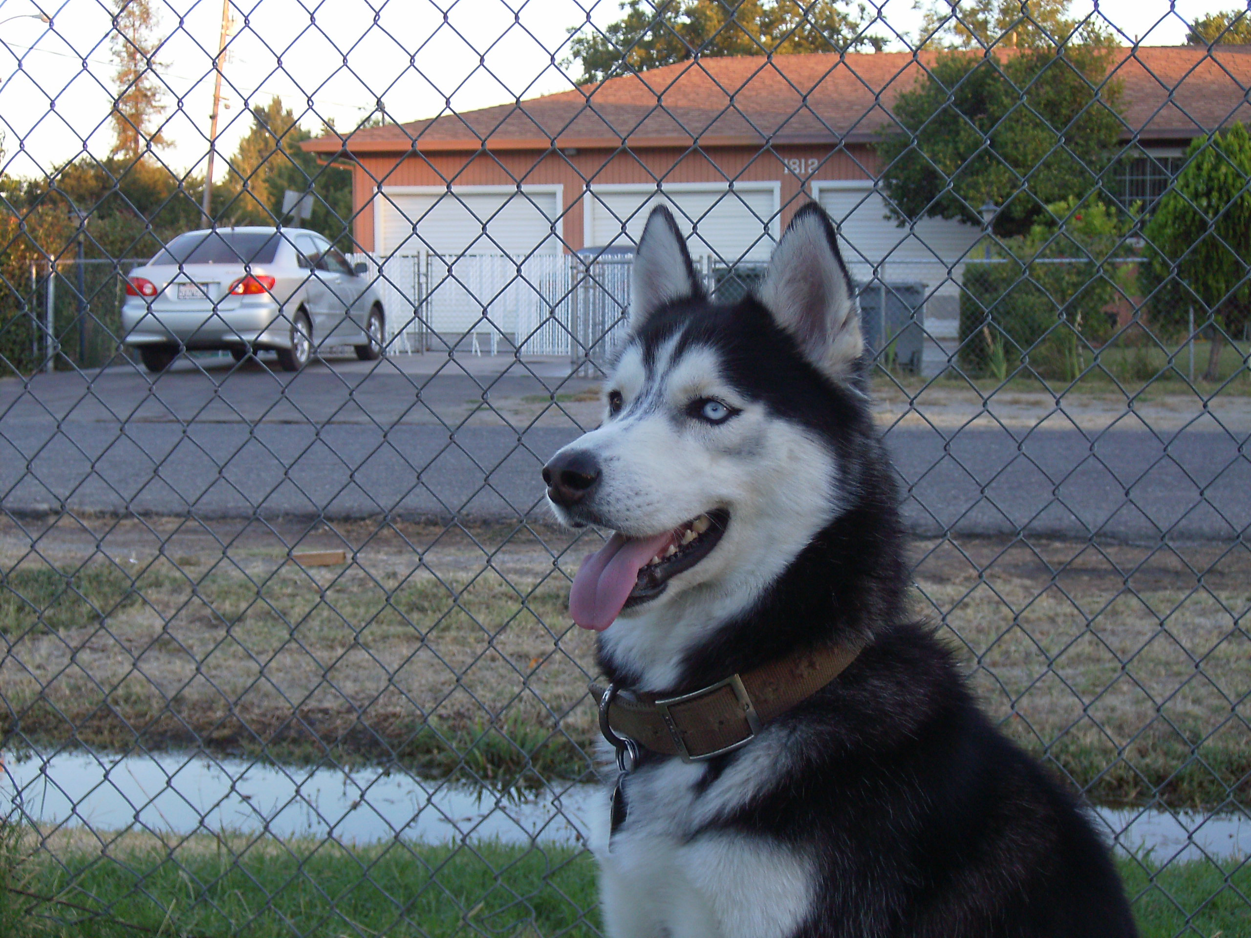 A Black and White male Siberian Husky